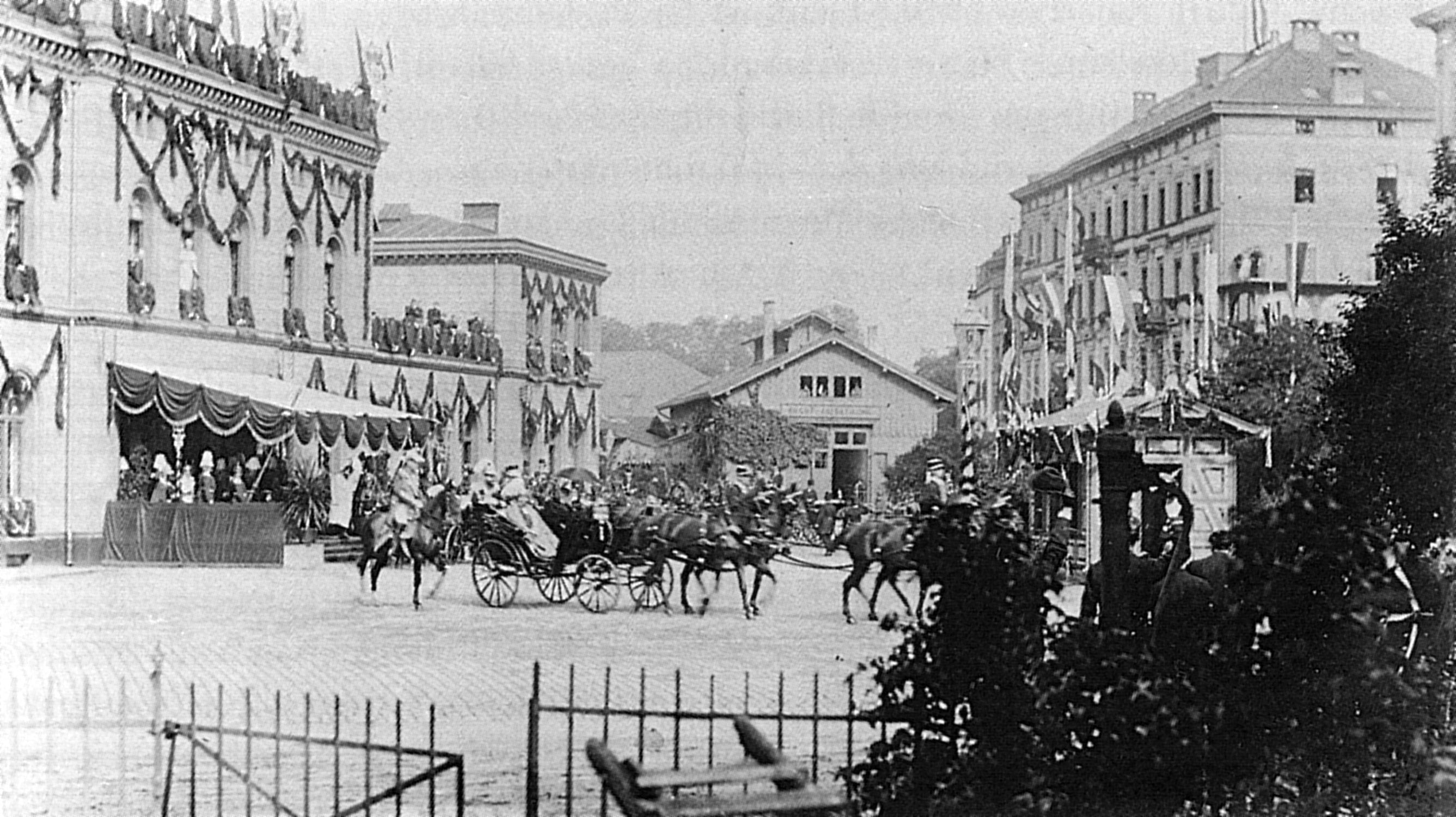 Arrival of emperor Wilhelm II. at Rhine-Station in Koblenz